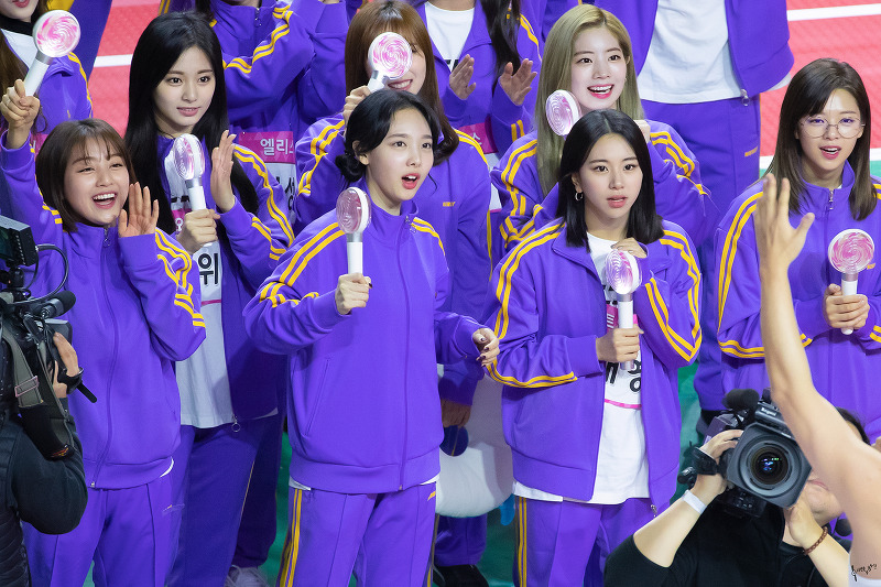 Twice at Idol Star Athletics Championships on January 7, 2019.